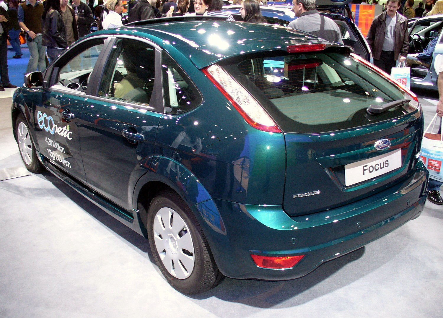 Ford Focus Facelift Econetic